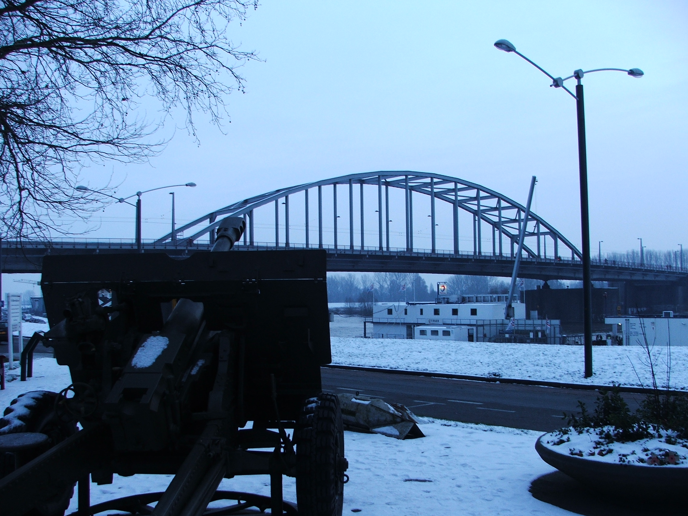 John Frost Bridge